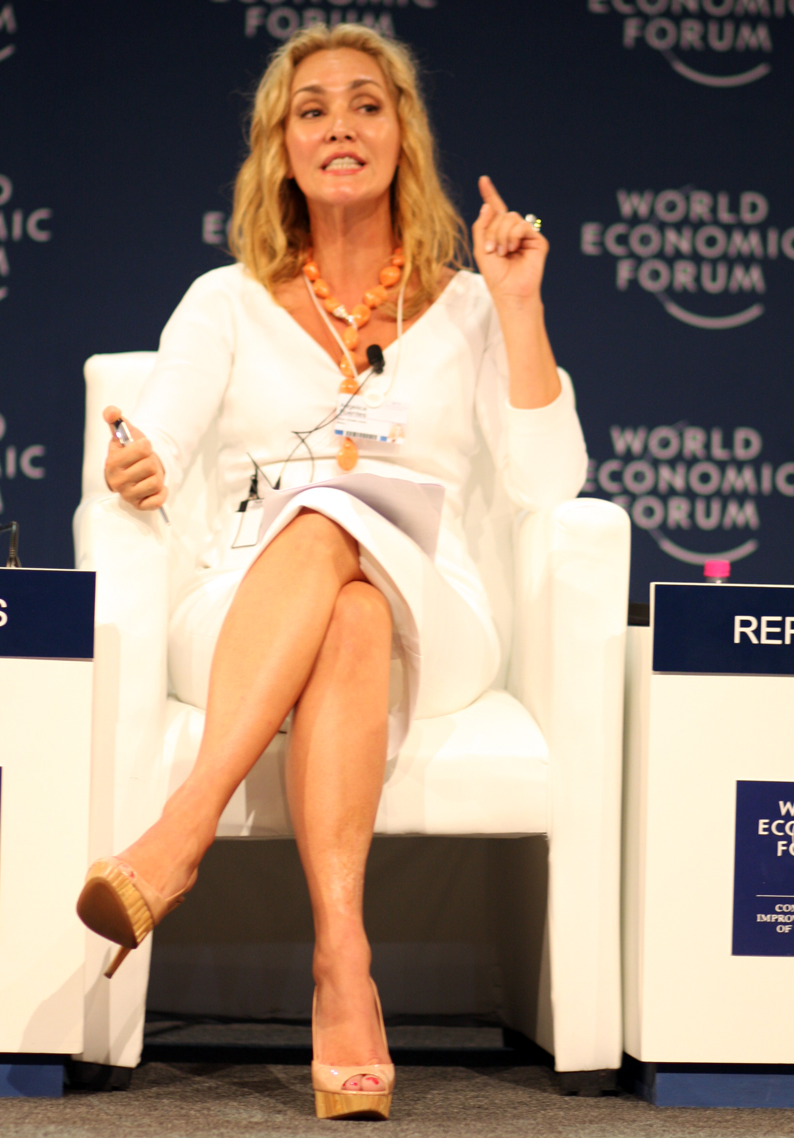 PUERTO VALLARTA/MEXICO, 17APR12 -Angelica Fuentes, Chief Executive Officer, Omnilife, Mexico captured during television debate, 'Mexico's Mañana' at the World Economic Forum on Latin America 2012 in Puerto Vallarta, Mexico. Copyright World Economic Forum ( byJosef Kandoll Wepplo